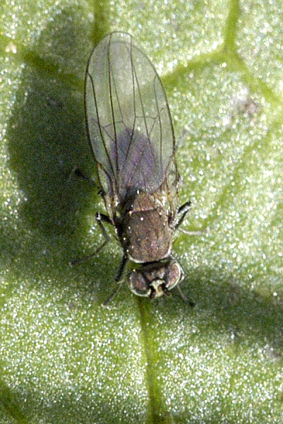 Picture taken in Commanster, Belgian High Ardennes . Species: Hydrellia griseola